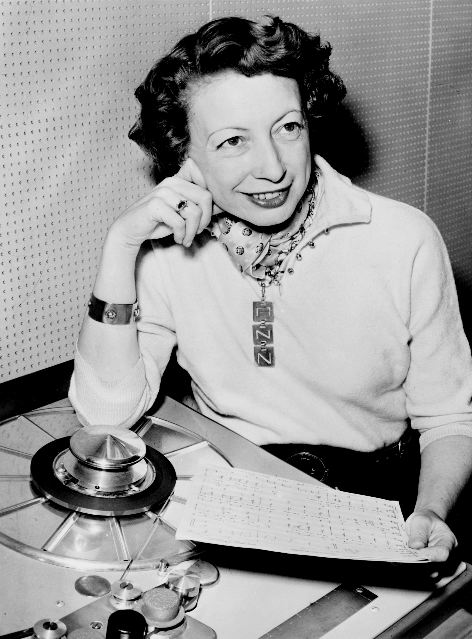 Ann Ronell at tape recording machine listening to a song she wrote called "Just a Girl" / World Telegram & Sun photo by Walter Albertin.